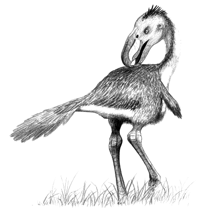 Life reconstruction of the terror bird Andalgalornis by John Conway